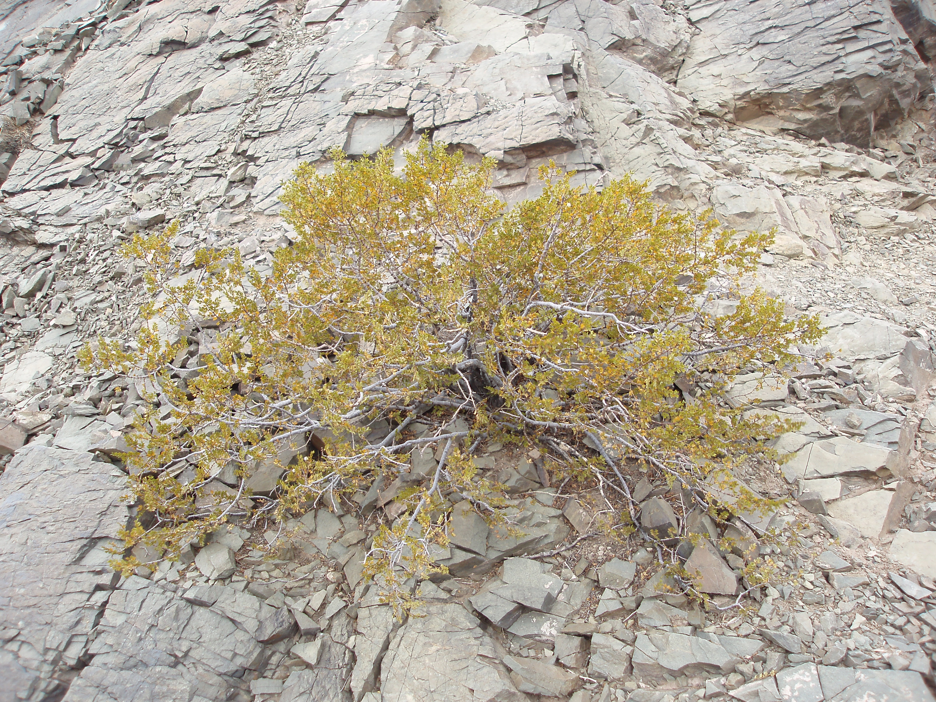 Larrea cuneifolia, Uspallata, Argentina